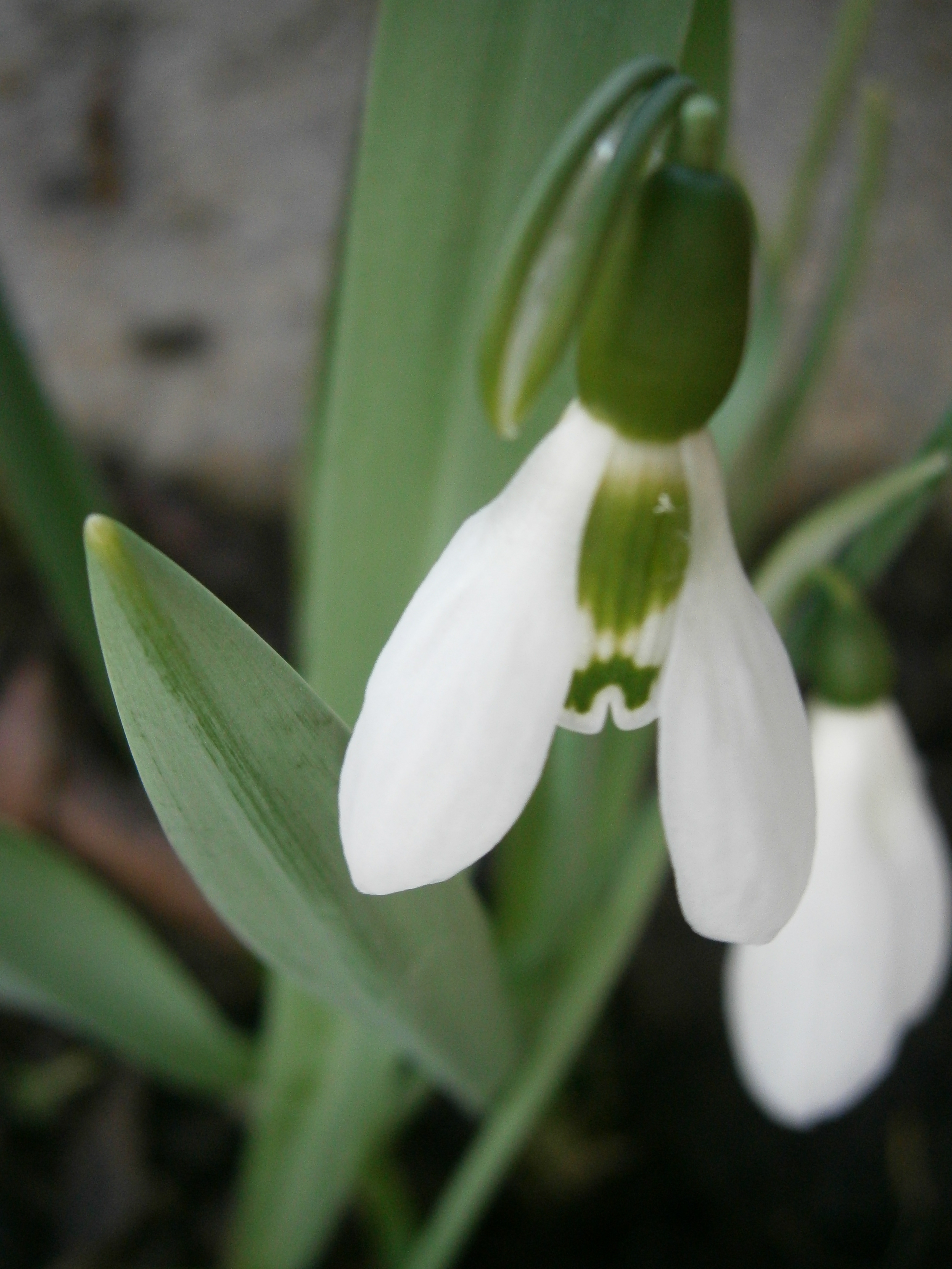 Galanthus elwesii flower